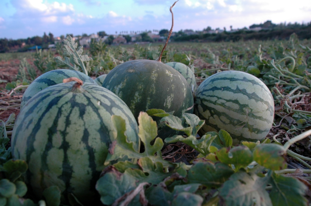 watermelon in Moshav Tsofit , Agriculture in Israel